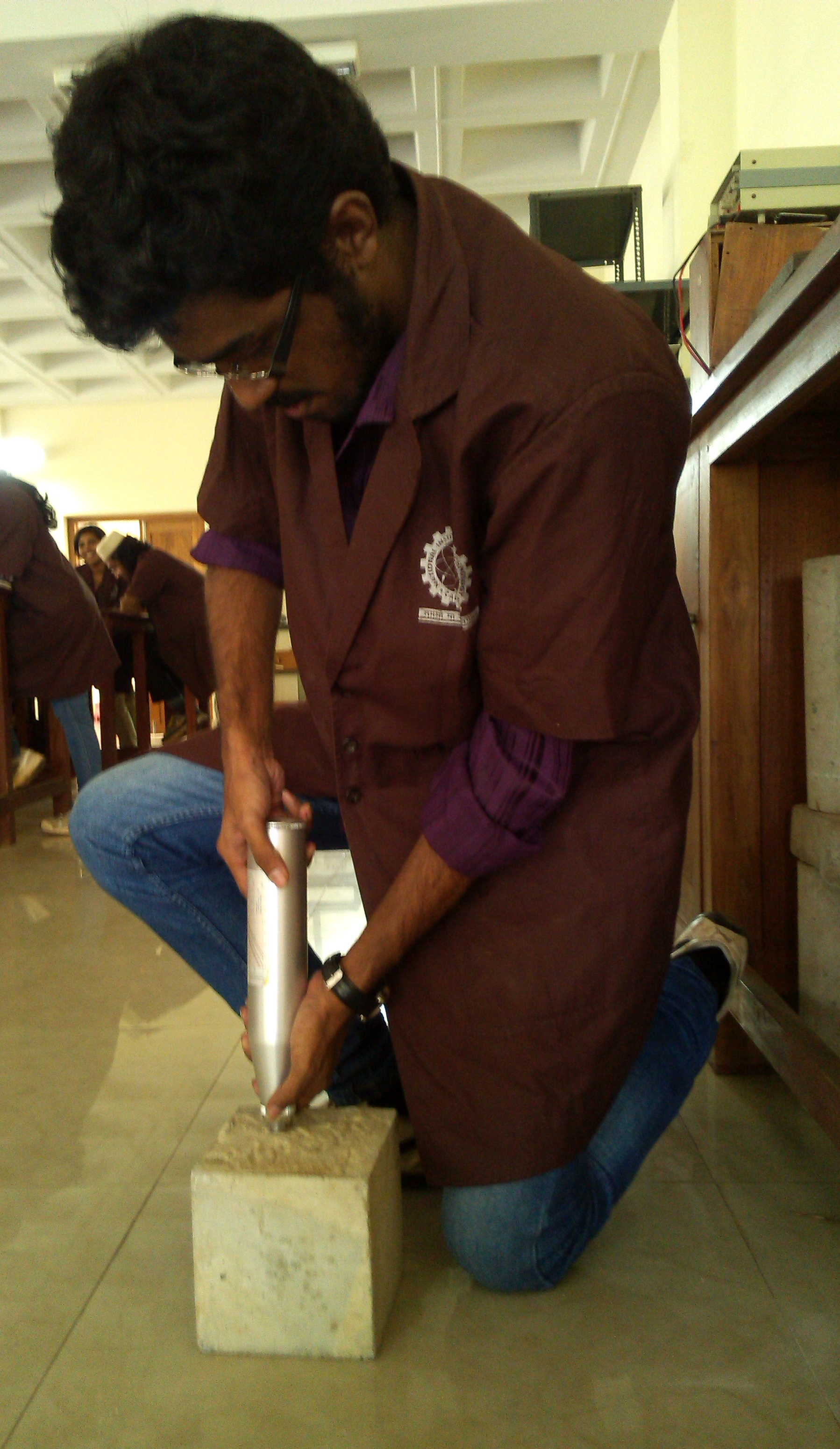 Testing the compressive strength of a concrete cube using Schmidt hammer, incorrectly. The Hammer should be helf horizontally to avoid the effect of gravity on the reading.